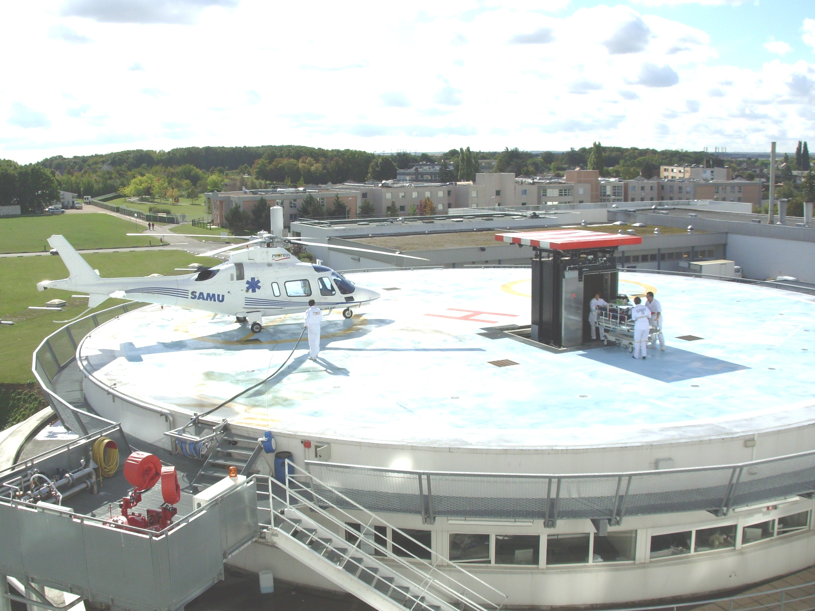 French Samu (Eure et Loir) with its Helicoptered MICU